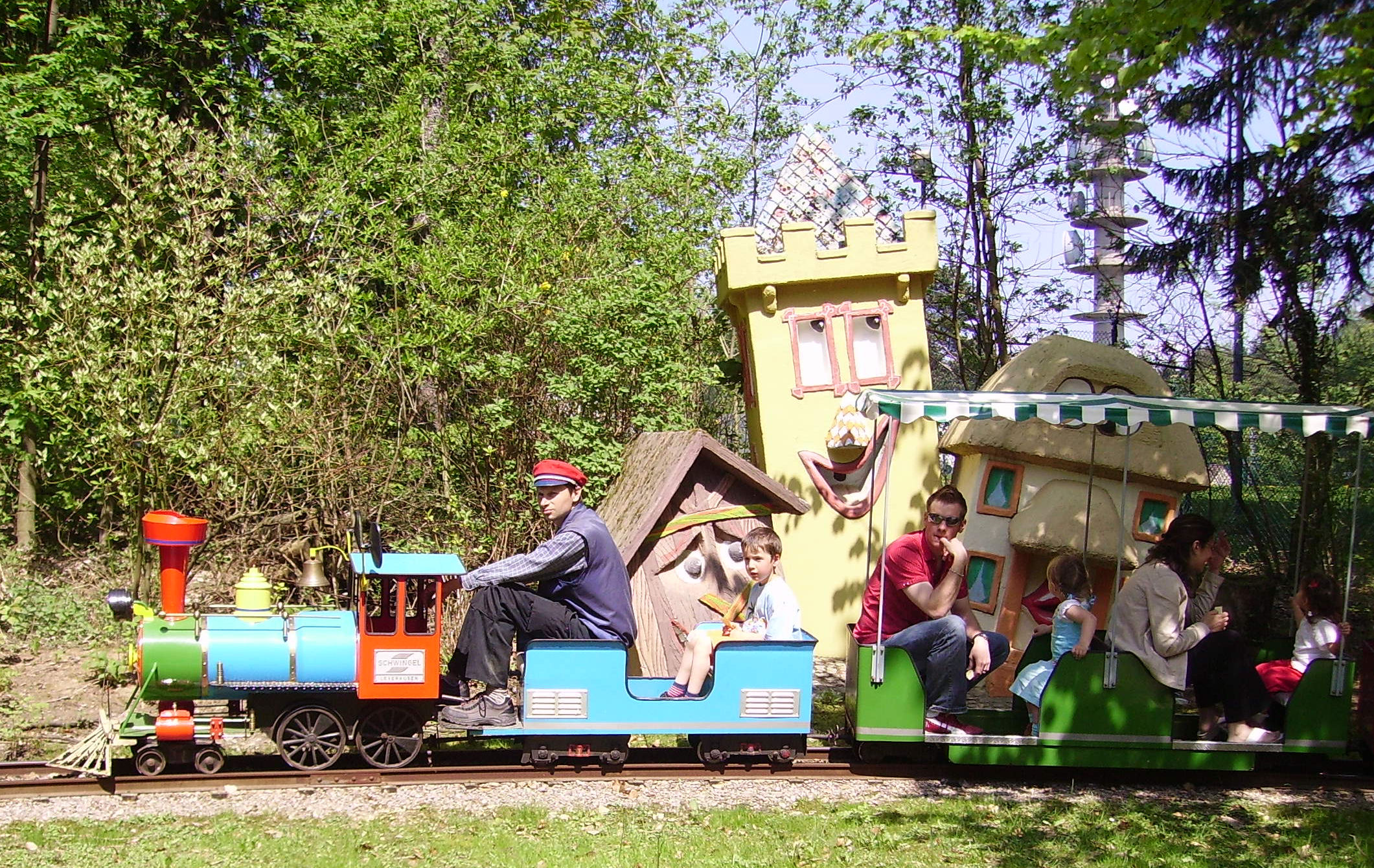 on top of Königstuhl (mountain) in Heidelberg, Germany